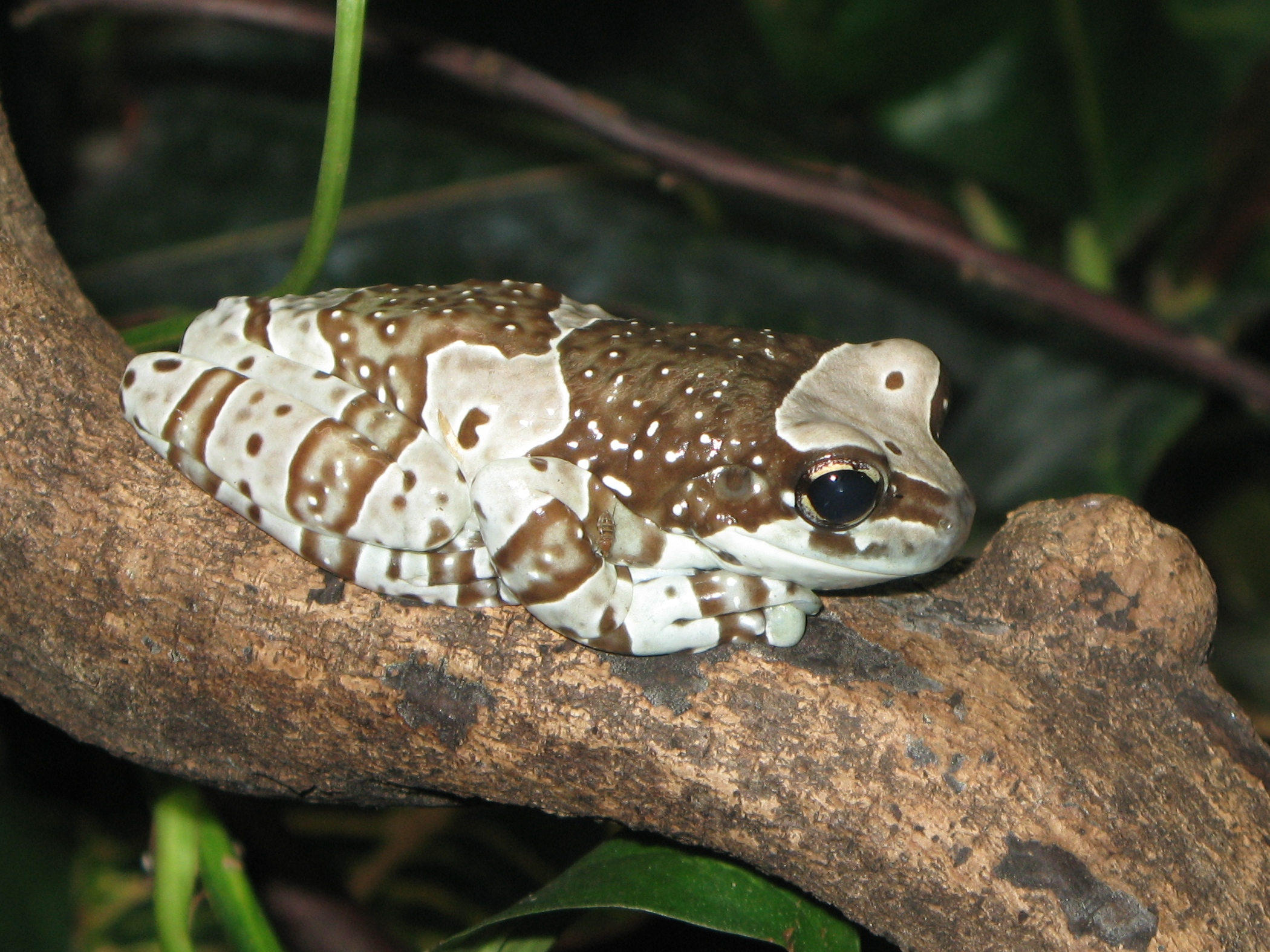 Phrynohyas resinifictrix in Warsaw zoo